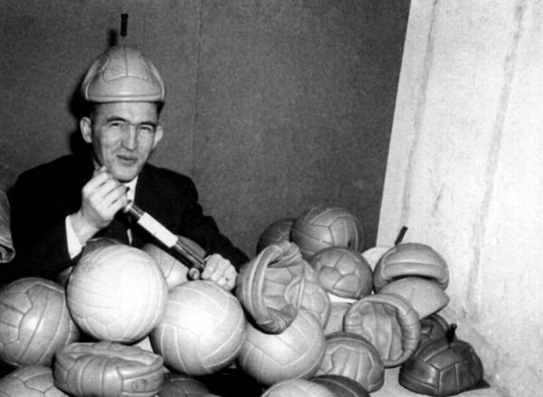 Sven-Erik Westerberg of Svenska Fotbollsförbundet (Organisationskommittén for WC 1958) inflates balls